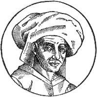 a facsimile copy of the famous woodcut from Petrus Opmeer's Opvs chronographicvm orbis vniversi a mvndi exordio vsqve ad annvm M.DC.XI. (Antwerp, 1611).